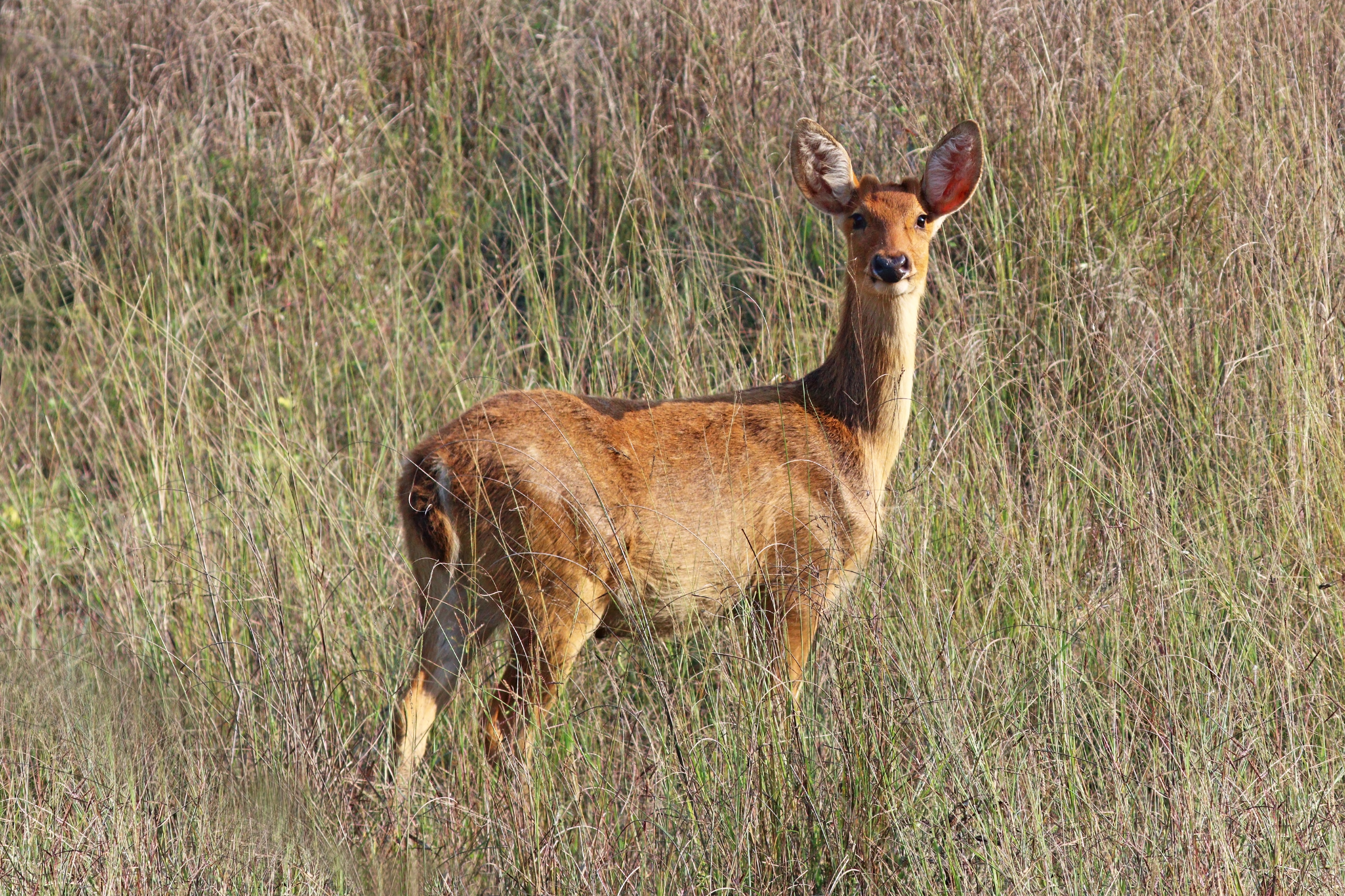 Swamp deer (Cervus duvaucelii branderi) juvenile male, Kanha National Park, MP, India